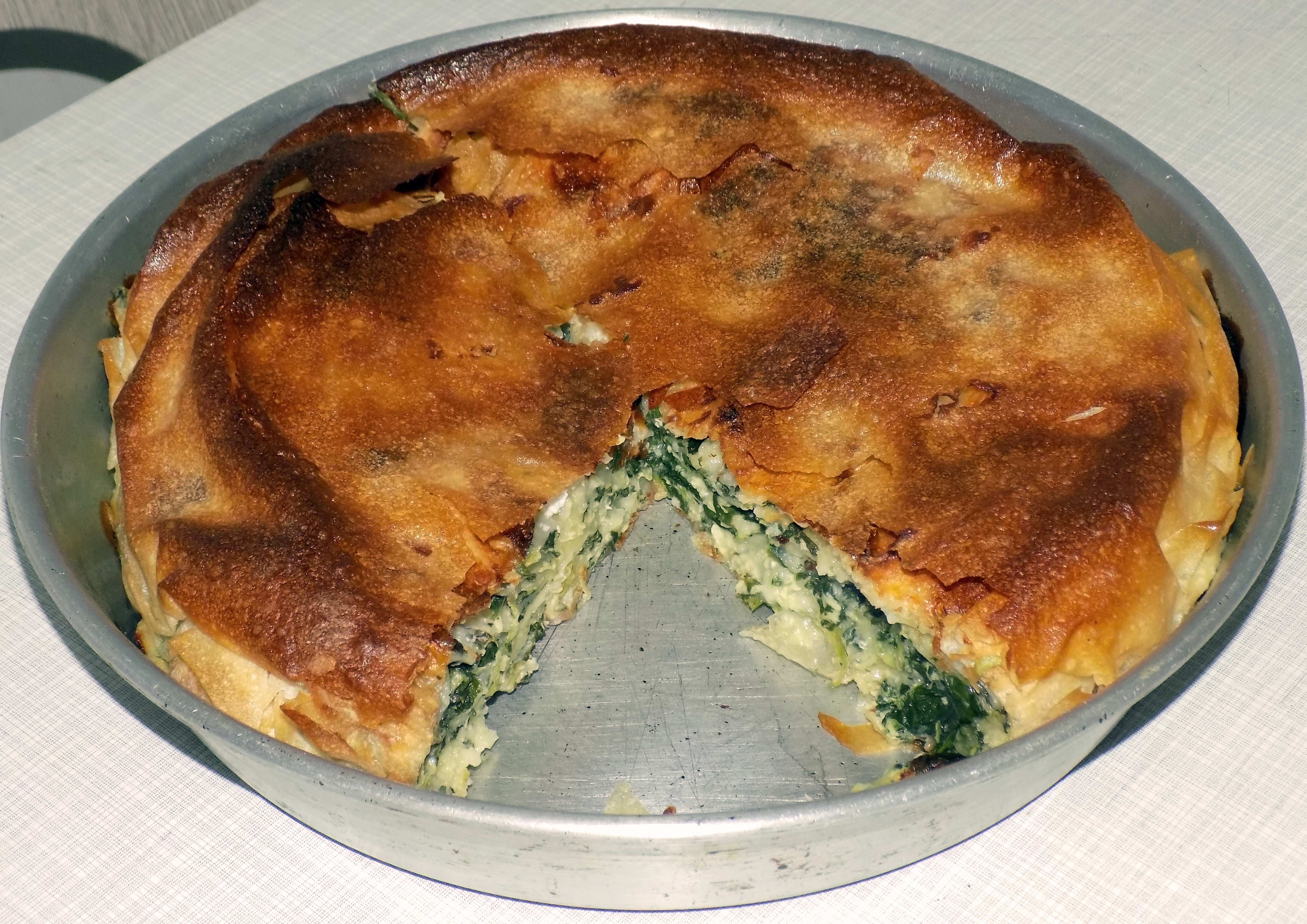 Homemade Serbian pie (burek) with spinach and cheese